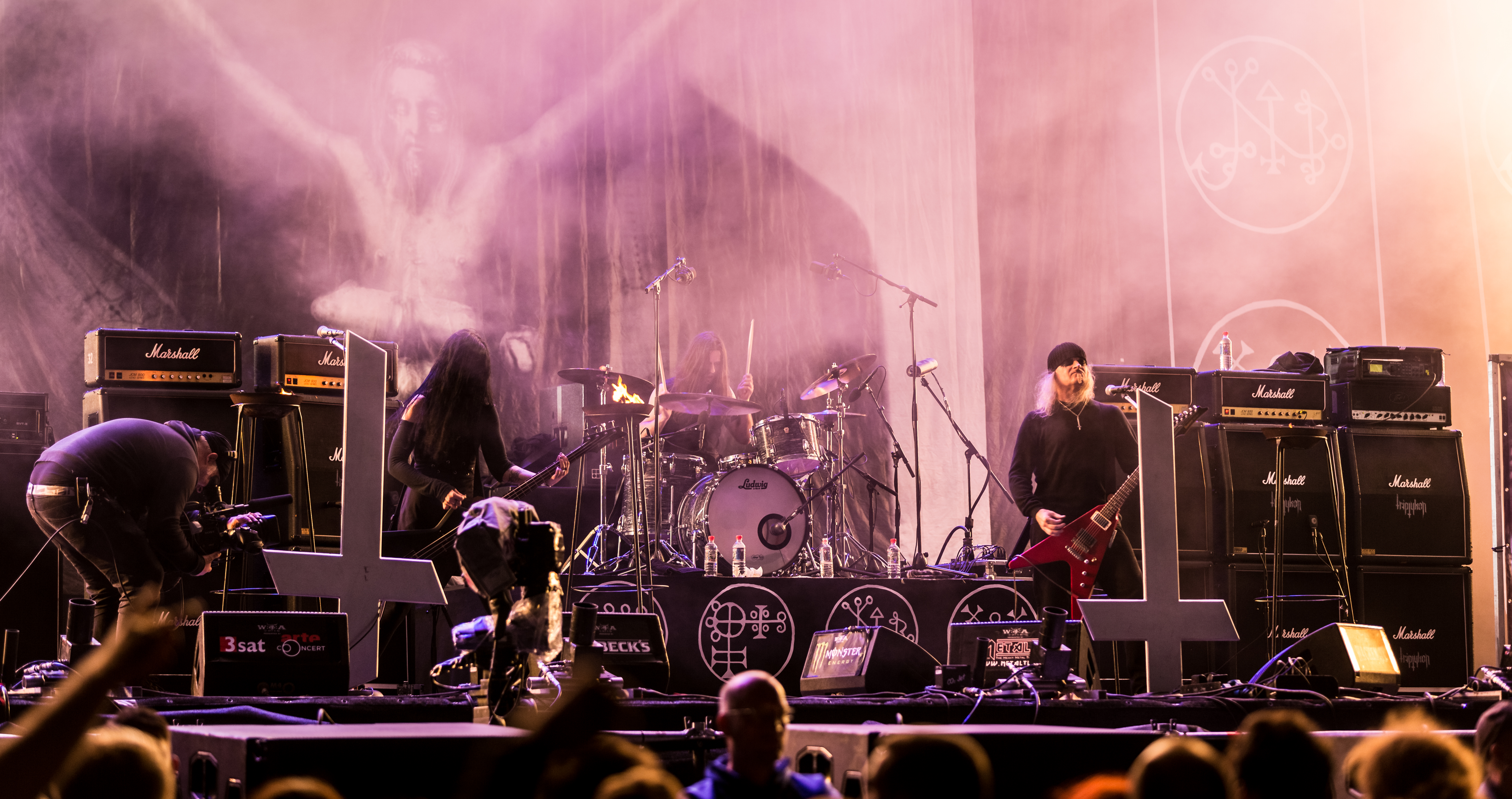 Triptykon - Wacken Open Air 2016